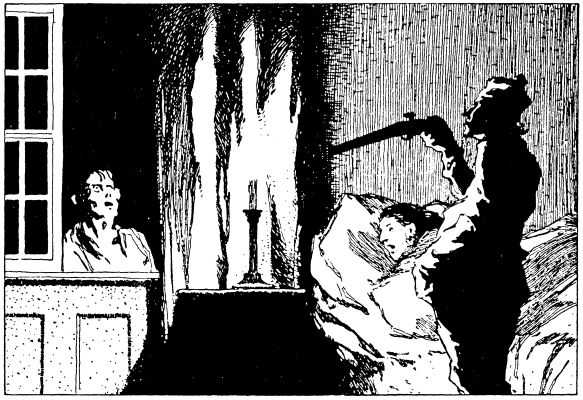 Illustration by Otto Ubbelohde to the fairy tale The Master Thief